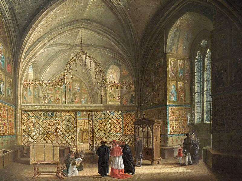 Ludvík Kohl - Chapel of the Holy Cross at Karlštejn (1820)